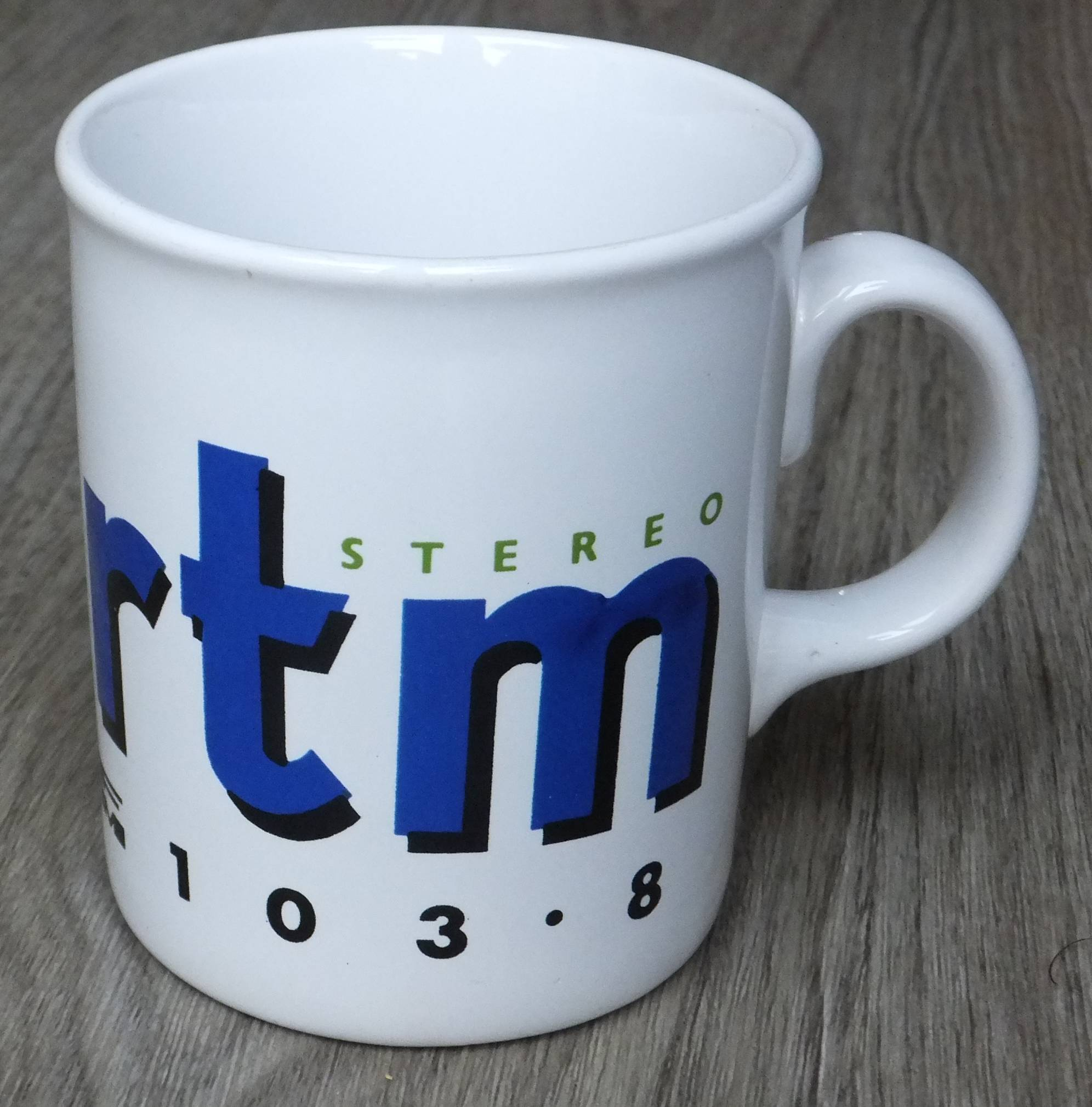 Promotional mug bearing original logo for RTM Radio (SE London). From 1990.